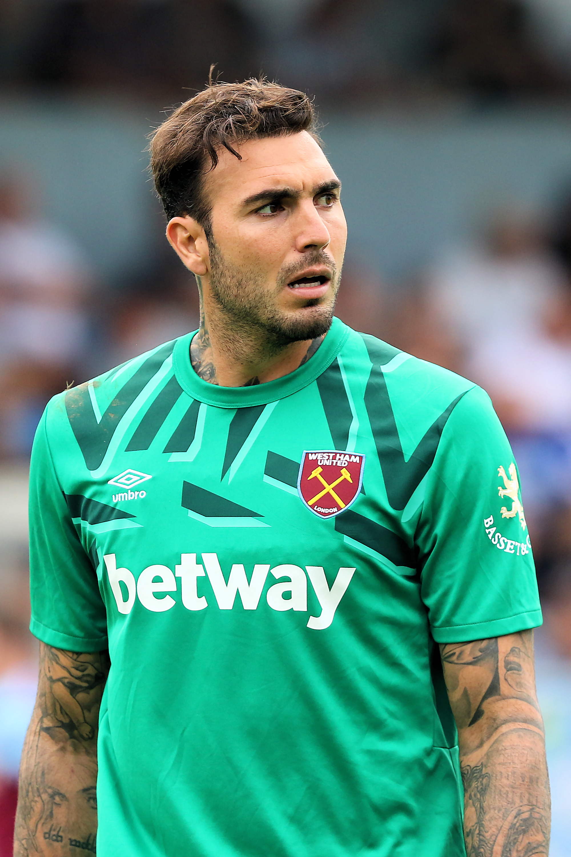 Friendly match Hertha BSC (blue-white shirts) vs. West Ham United (red-blue shirts) at 31-07-2019 3-5 (3-2) in the Sonnenseestadium in Ritzing. – The photo shows Roberto Jiménez Gago (goalkeeper of West Ham United).